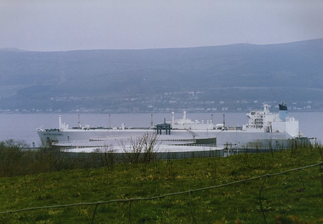 LNG Port Harcourt at Inverkip Power Station jetty. A scanned image of the steam powered Liquefied Natural Gas tanker "LNG Port Harcourt" at the jetty, viewed from Finnockbog Road. This is a rare sight indeed; not only was Inverkip an oil fired power station (with no need for LNG), but very few ships ever berthed there as the power station was rarely used due to the soaring price of oil and the advent of nuclear power in the early 1970s. LNG Port Harcourt was built in France as "Nestor" for the Blue Funnel Line in 1976. She was immediately mothballed in nearby Loch Striven along with her sister ship "Gastor" until being purchased by Shell in the late 1980s and renovated for use in the Nigerian trade. She was berthed at Inverkip for inspection and reactivation after coming out of storage in Loch Striven. Thanks to Chris Allen and John Porter for the above information. The oil storage tanks 535990 can be seen in the foreground.